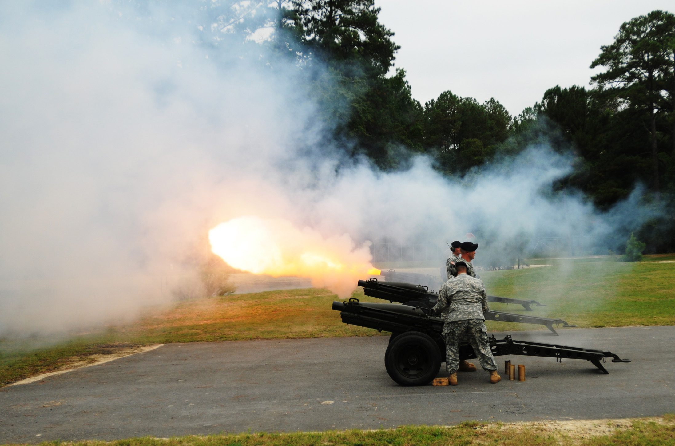 Soldiers assigned to the Salute Battery, Bravo Company, 4th Battalion, 10th Infantry Regiment, fire an artillery round during the change of command ceremony held Sept. 20 at Fort Jackson, S.C.